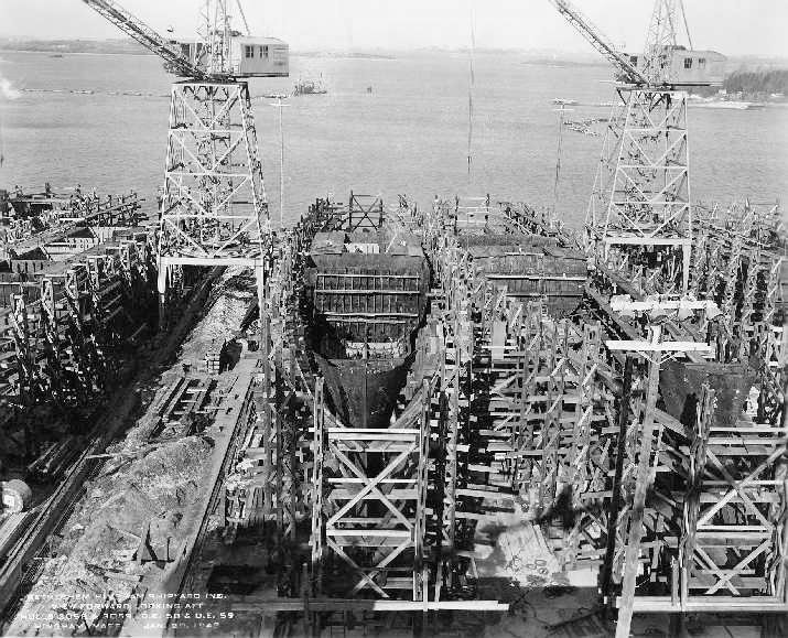 The U.S. Navy destroyer escorts USS Formoe (DE-58), left, and USS Foss (DE-59) under construction at the Bethlehem Hingham Shipyard, Hingham, Massachusetts (USA), on 20 January 1943. Formoe was transferred to the United Kingdom under the Lend lease act and was renamed HMS Calder (K349).